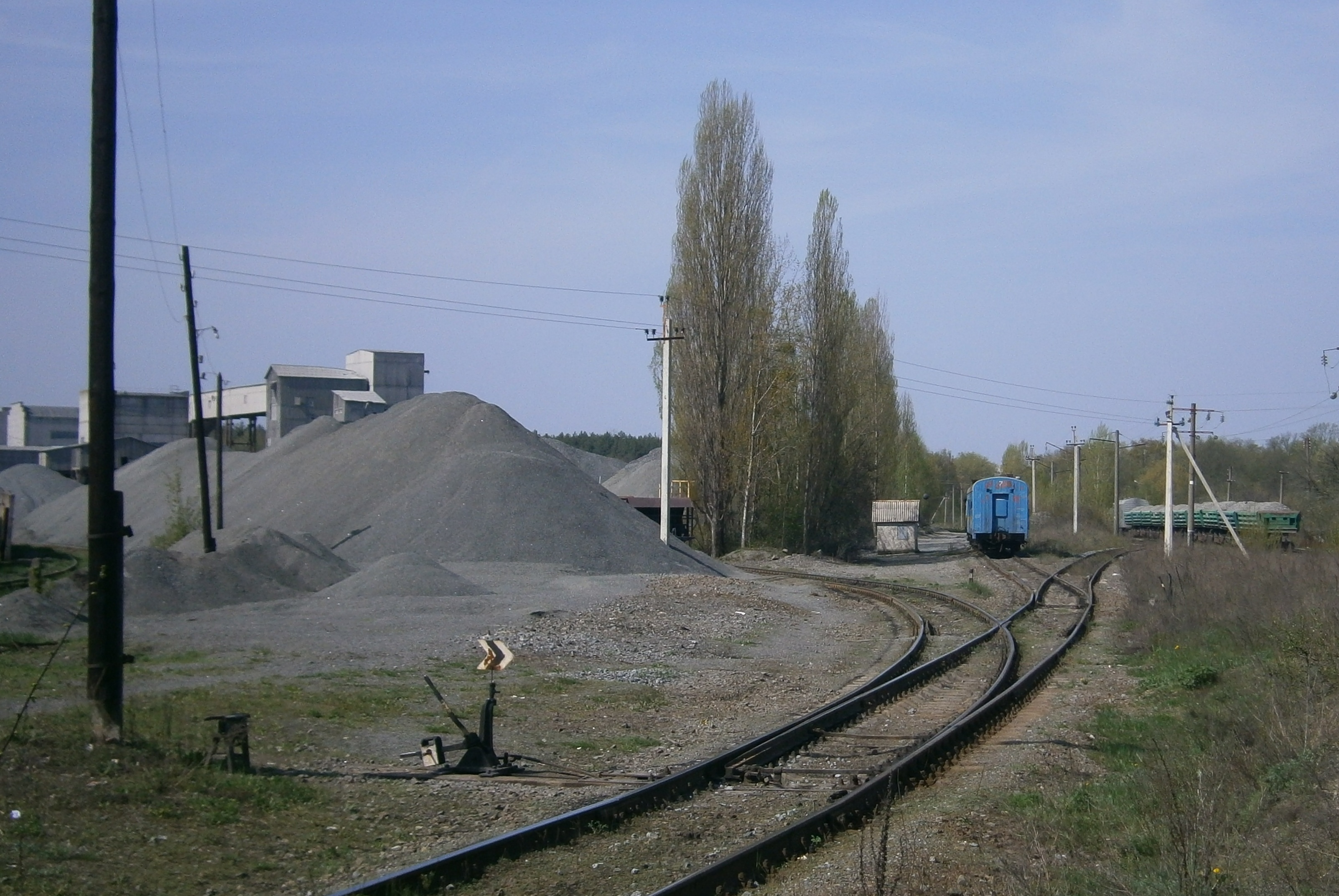 Granite crushing plant in town of Hranitne, Ukraine